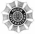 Badge of PIDE - Polícia Internacional e de Defesa do Estado (International and State Defense Police), the Portuguese secret police from 1945 to 1969